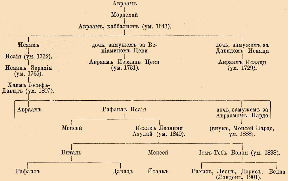 Illustration from Brockhaus and Efron Jewish Encyclopedia (1906—1913)